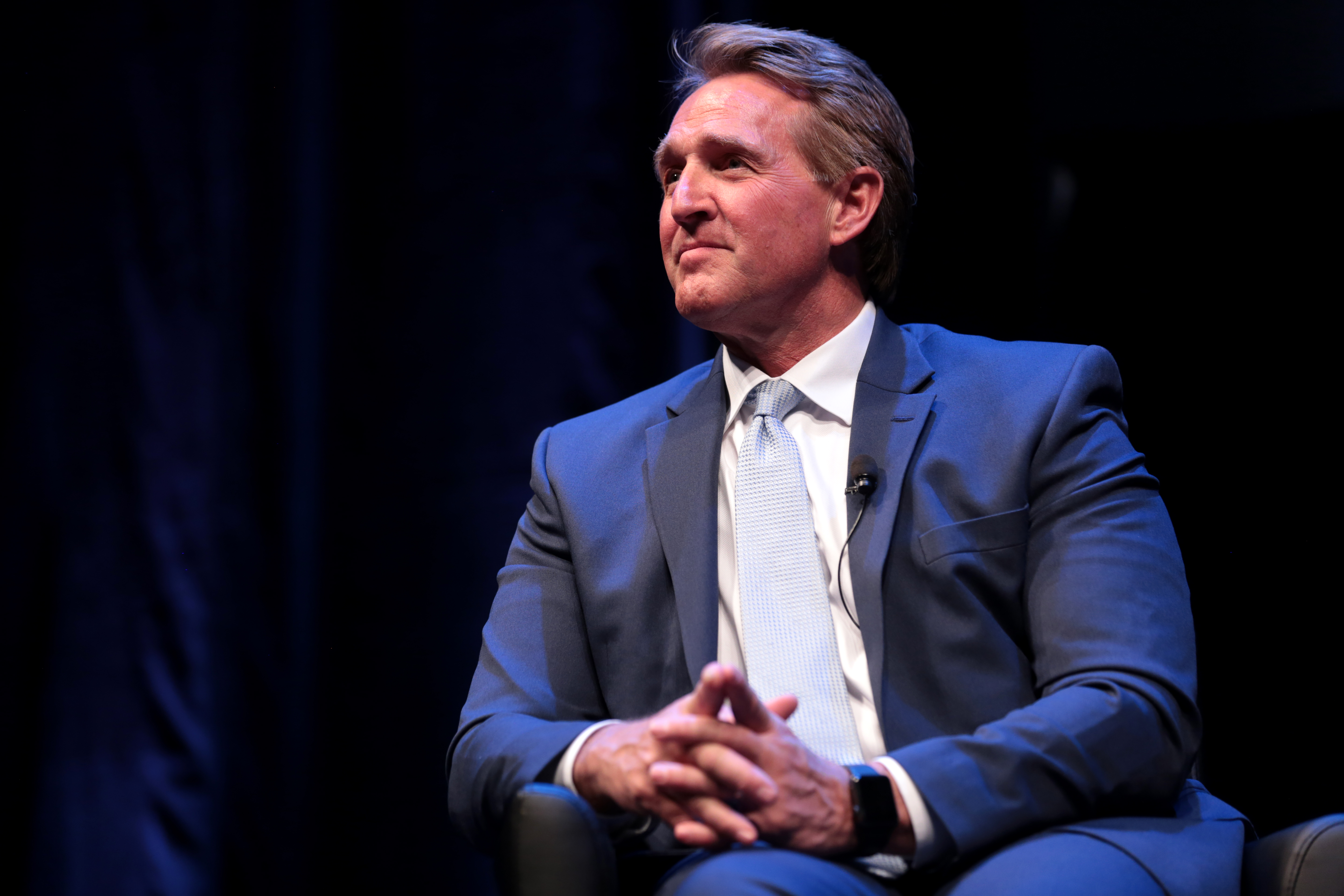 U.S. Senator Jeff Flake speaking at the 2018 John J. Rhodes Lecture hosted by Barrett, the Honors College at Arizona State University at the Galvin Playhouse in Tempe, Arizona.